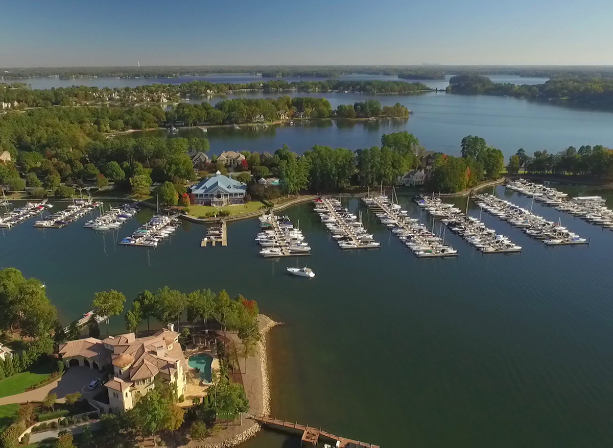 Aerial View of the Peninsula Yacht Club in Cornelius on Lake Norman, North Carolina.